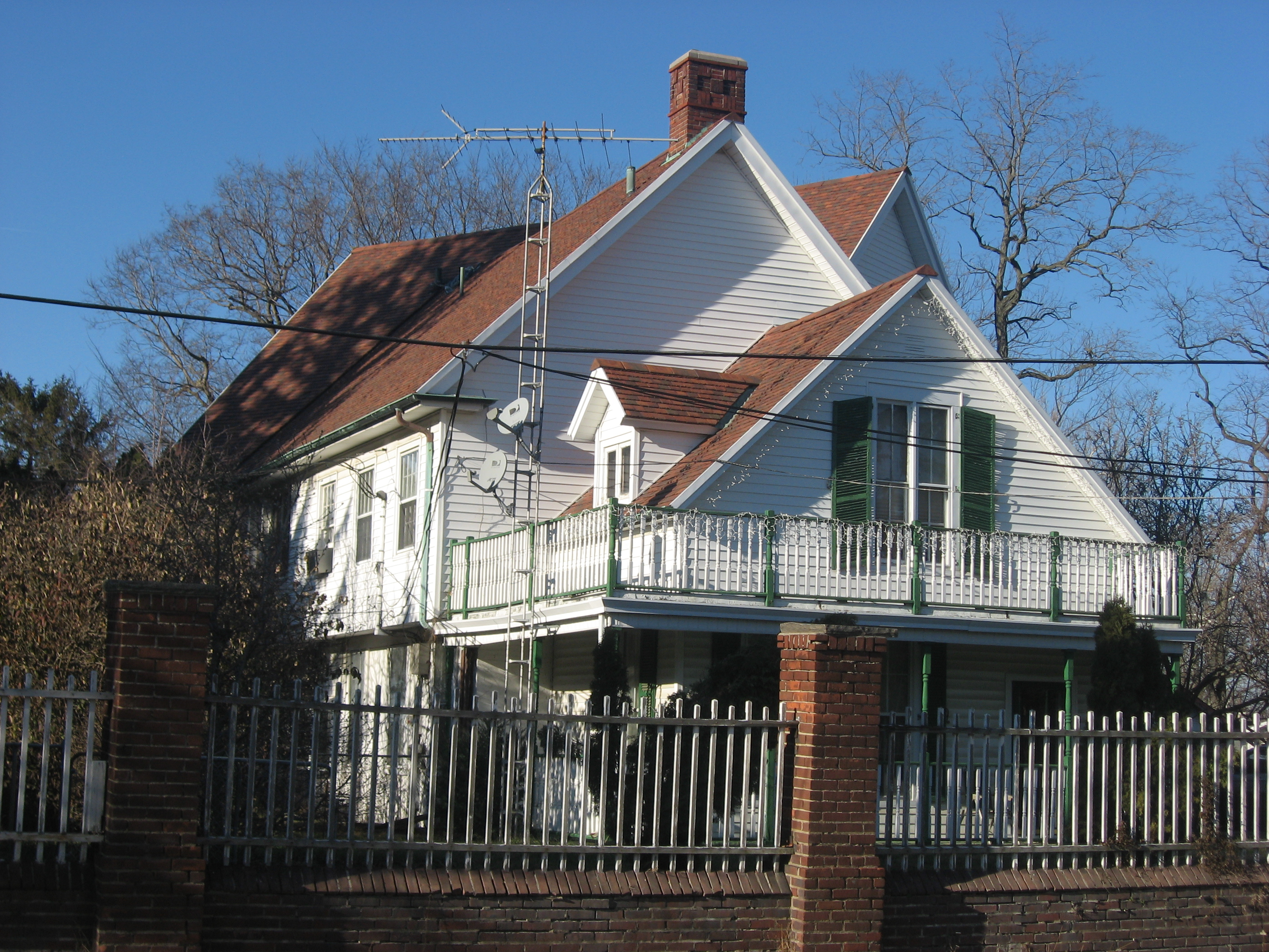 Front and southern side of the Otto Carmichael House, located at 900 W. Kilgore Avenue (State Road 32) in Muncie, Indiana, United States. Built in 1875, it is listed on the National Register of Historic Places.